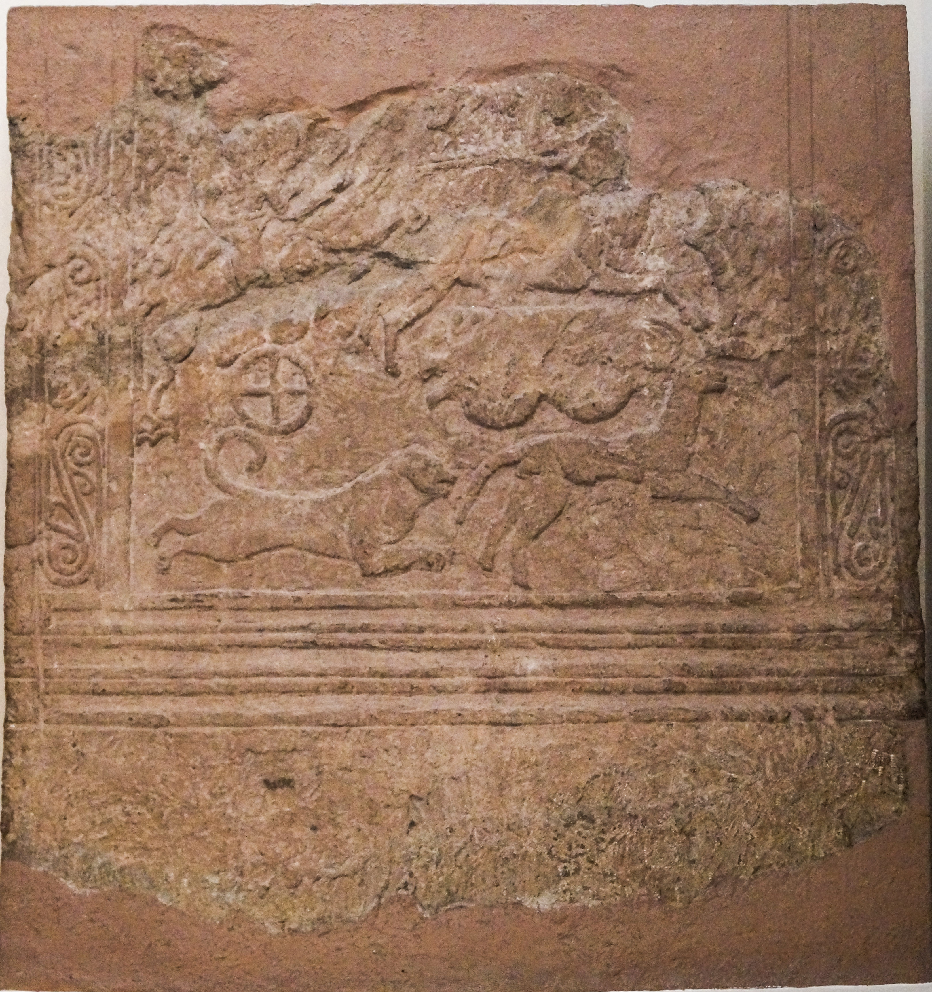 National Archaeological Museum of Athens: Funeral stele found on grave V of grave circle A at Mykenae (NAMA 1427).